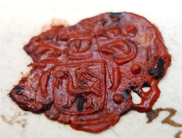 The seal of Johan Kyander, with a coat of arms depicting what might be a heron. The helmet over the shield is "open", normally reserved for aristocracy but not yet prohibited for commons. From an oath of faith submitted by the gentry in Viborg, Finland, to the the king Charles X in 1654, preserved in The National Archives, Stockholm.